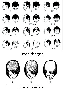 ALopecia gradations for men and women